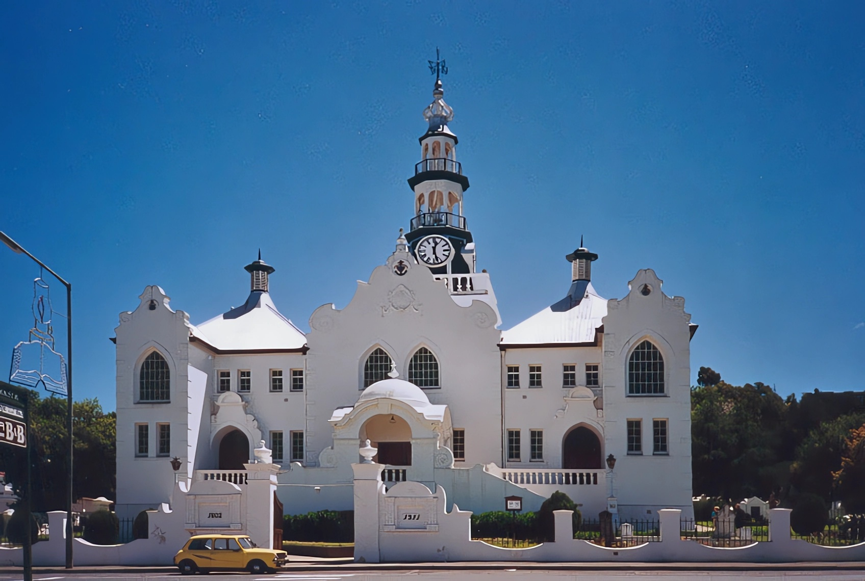 Church in Swellendam, Western Cape Province, South Africa This media shows a South African Protected Site with SAHRA file reference 9/2/092/0029.